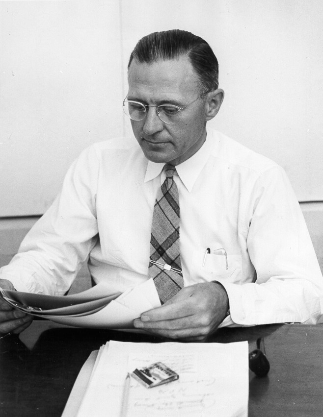 April 5, 1953 - Dr. Darol K. Froman, Technical Associate Director, Los Alamos Scientific Laboratory. (Photo by Dennis Schieck, Review-Journal, 4/5/53)